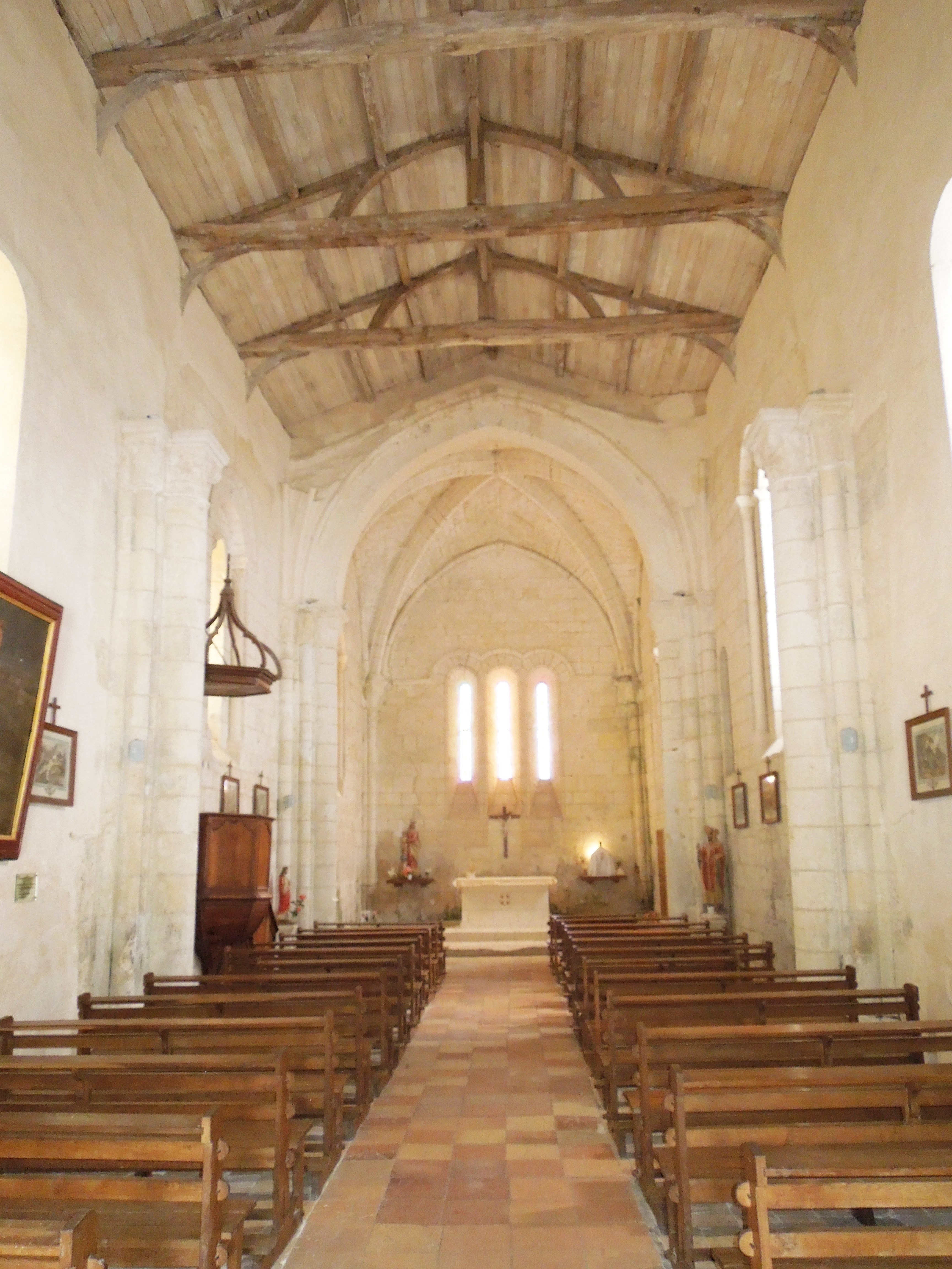 Meux: village church interior